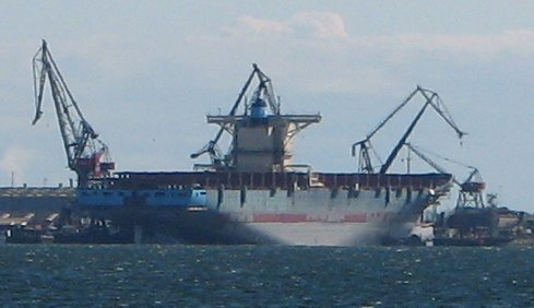 Emma Maersk, the world's currently largest container ship at Odense Steel Shipyard, some months before its construction was finished. Only this low-res version is available due to extended zoom. IMO Number: 9321483 MMSI Number: 220417000 Callsign: OYGR2 Length: 398 m Beam: 56 m Information about Emma Mærsk may be found at IMO 9321483. A ship can change name and flag state through time, but the IMO number remains the same through the hull's entire lifetime. As a result, it can be useful to identify a ship by using the IMO number.